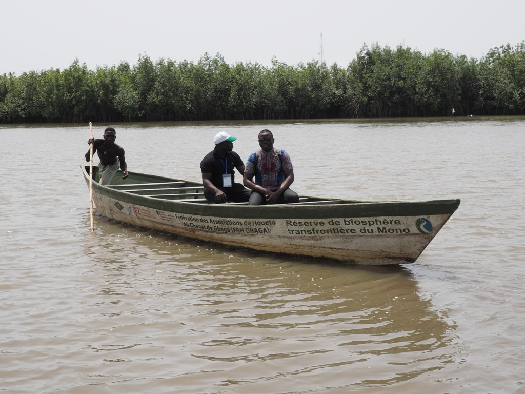 This is an image with the theme "Africa on the Move or Transport" from: Togo